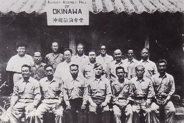 Member of Okinawa Advisory Council